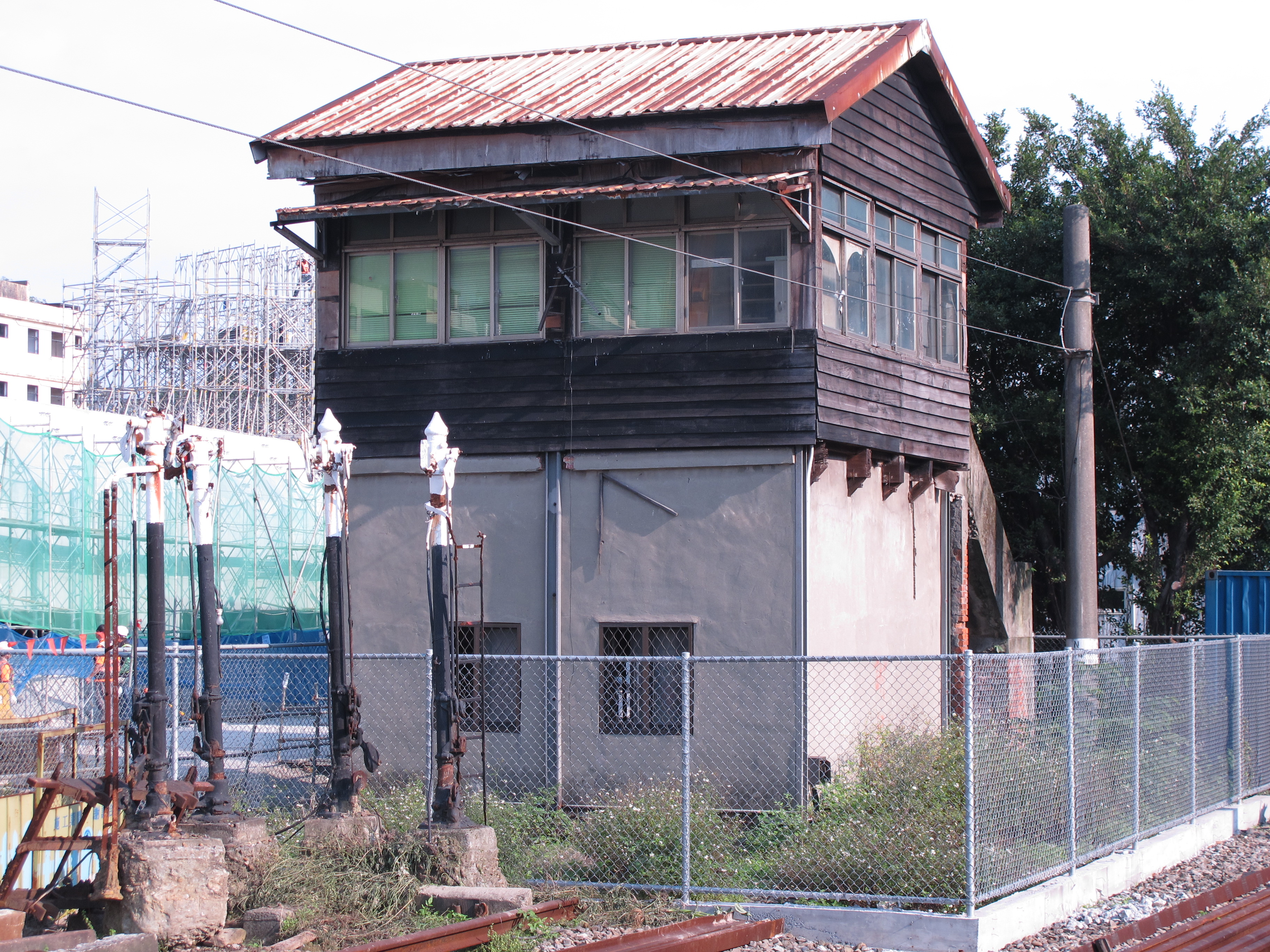 Keelung Railway Station North and South Signal Box Switch Station (North Signal Box).